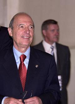 Konstantinos Simitis, Prime Minister of Greece